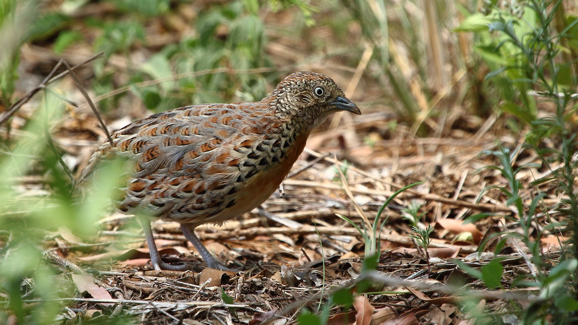 Kurrichane buttonquail, small buttonquail, or Andalusian hemipode (Turnix sylvaticus); Ithala Game Reserve, KwaZulu-Natal.